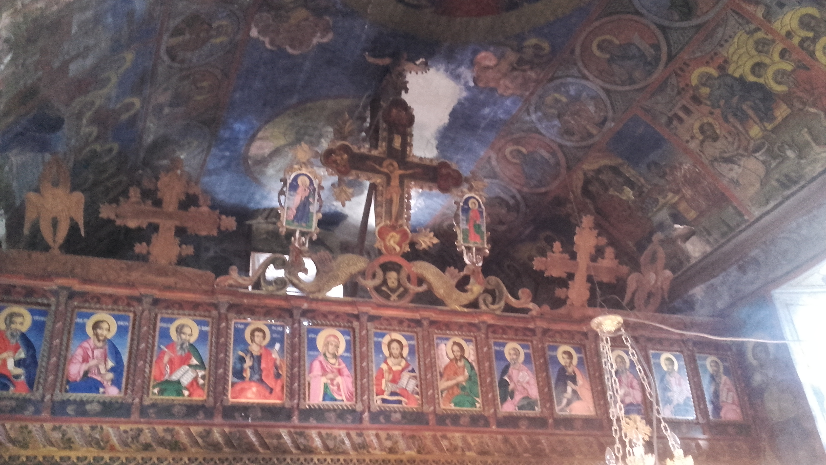 Interior of the Church of Holly Savior in vilage of Rashtak near Skopje, Macedonia